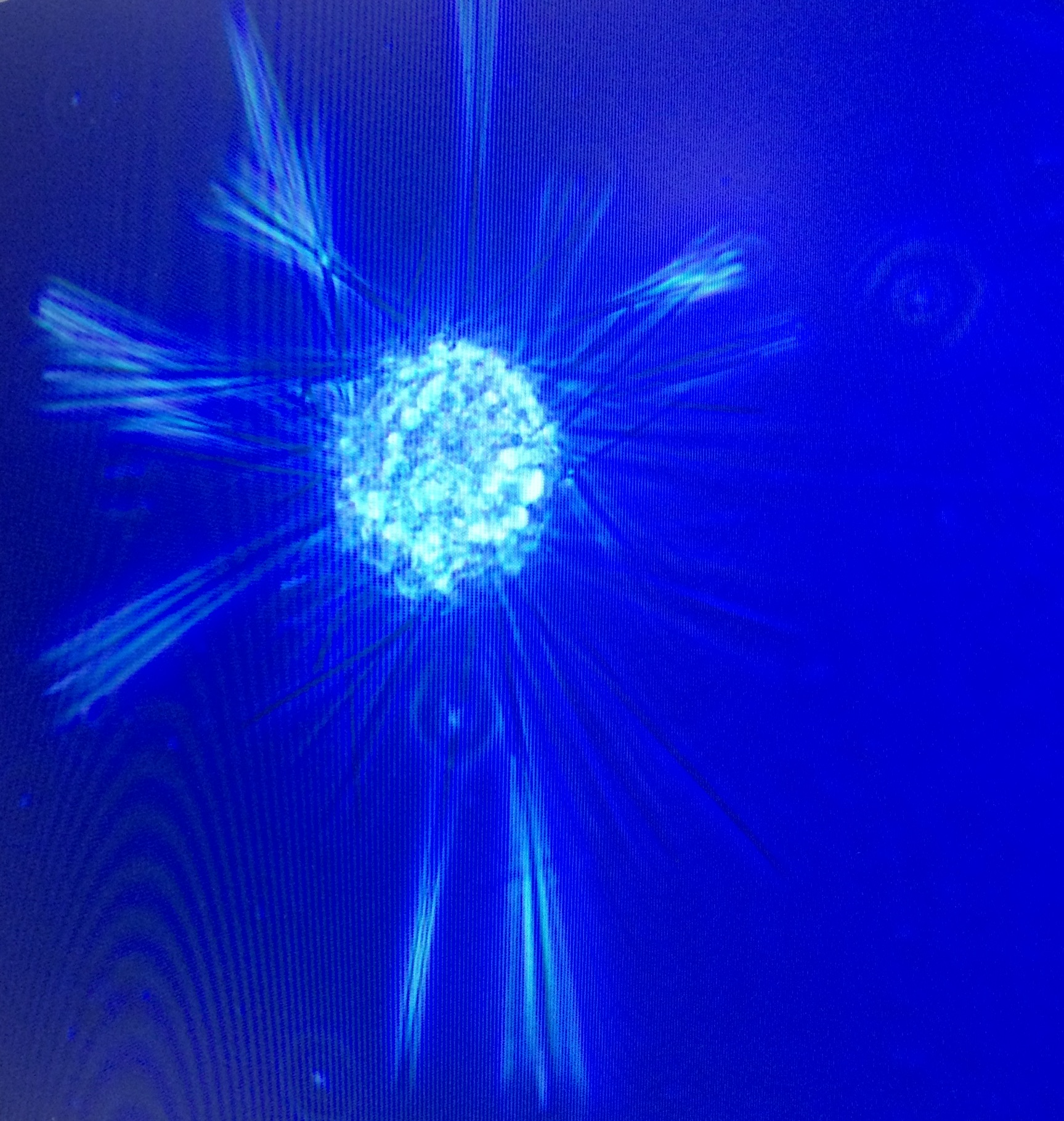 Sticholonche- one of their kind, radiolarian